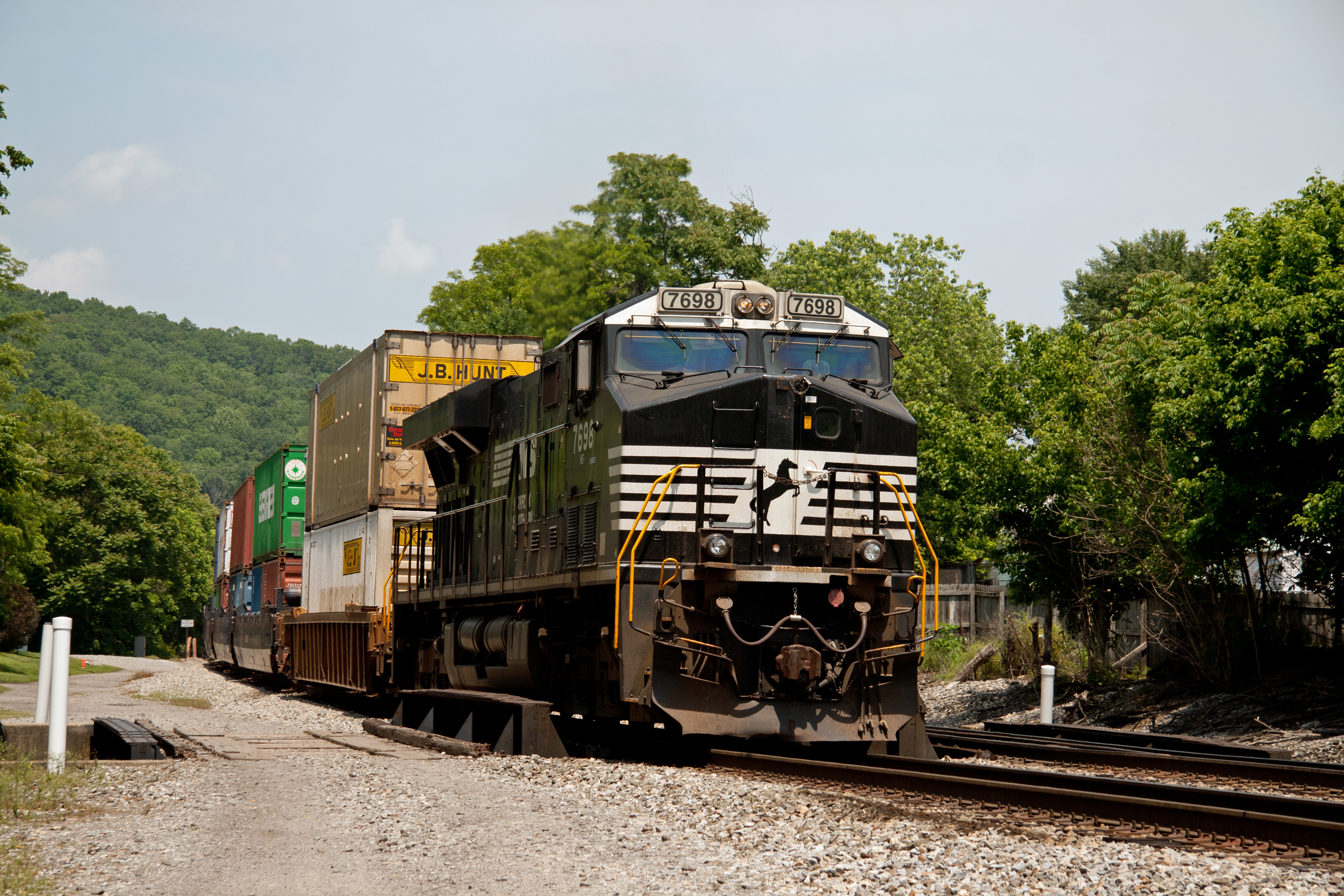 A fast moving NS intermodal is headed west through Elliston, VA on Memorial Day weekend.